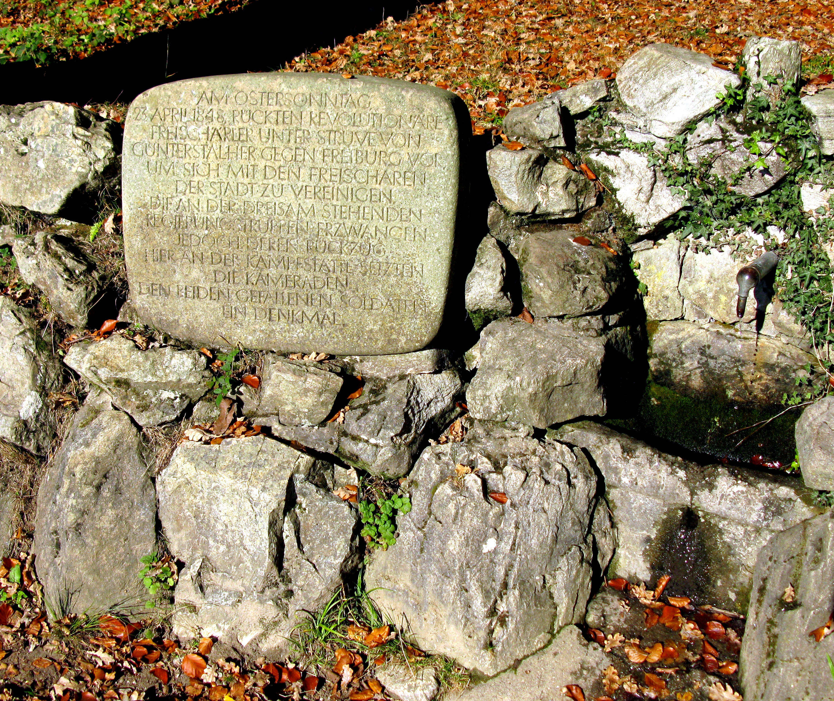 Monument for the victims of the revolution of Baden in Freiburg-Günterstal